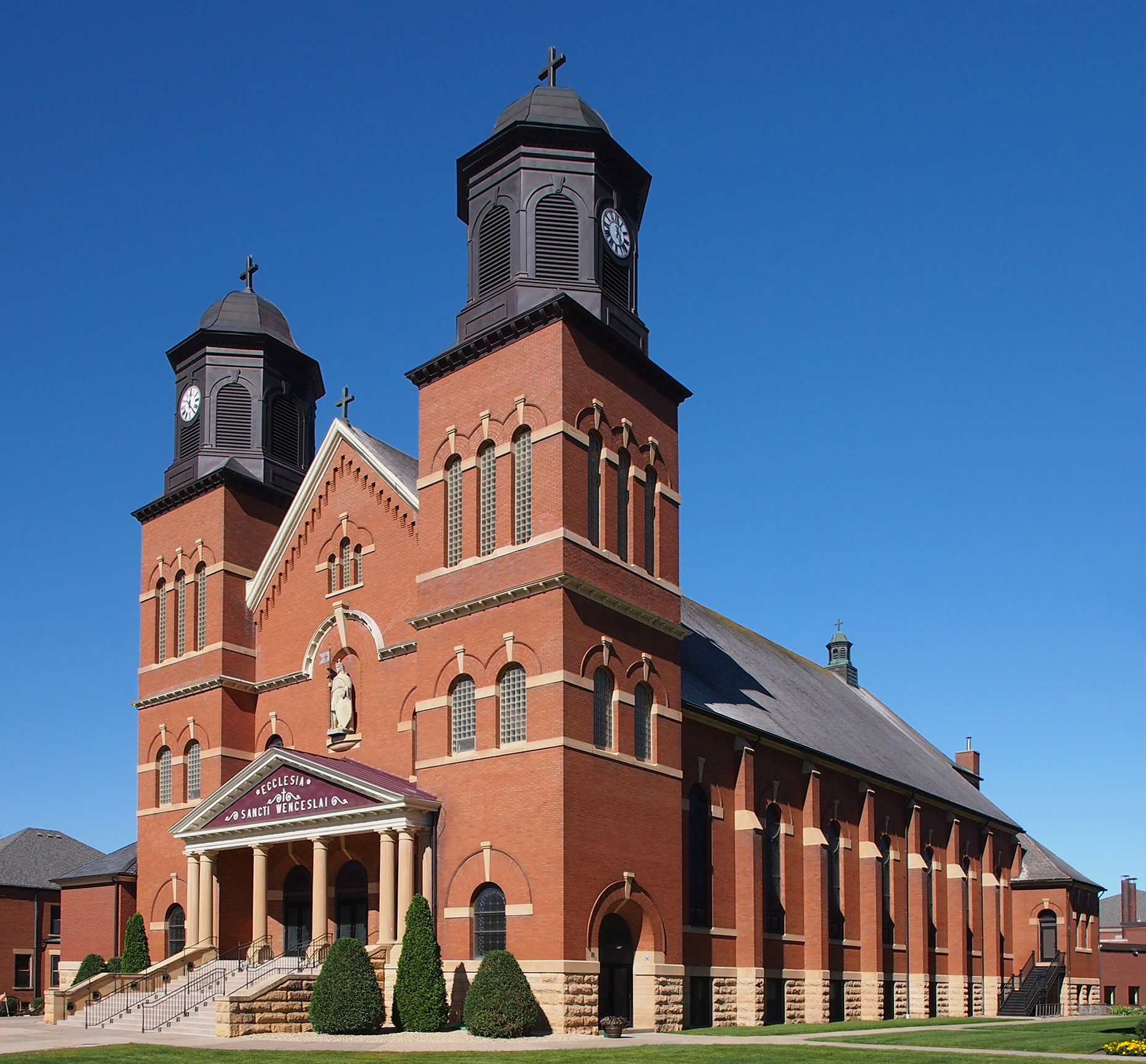 Church of St Wenceslaus, 215 Main St E, New Prague, Minnesota, USA. Viewed from the southeast.